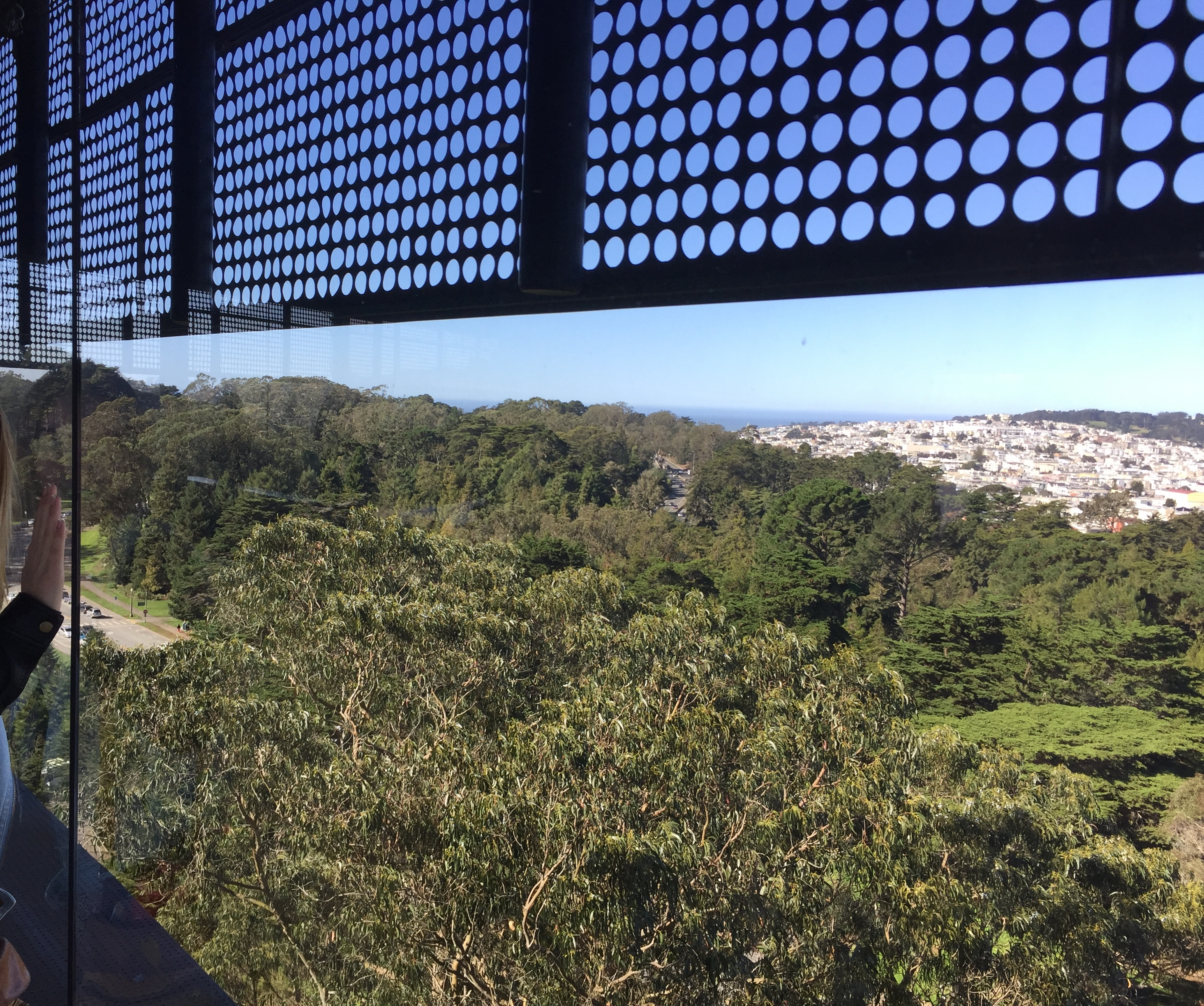 Golden Gate Park From De Young Tower